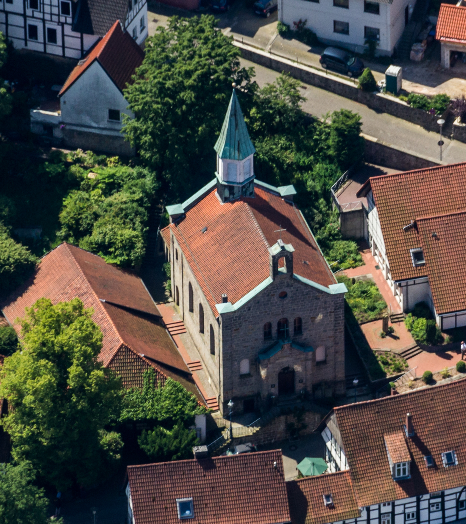 Tecklenburg, North Rhine-Westphalia, Germany